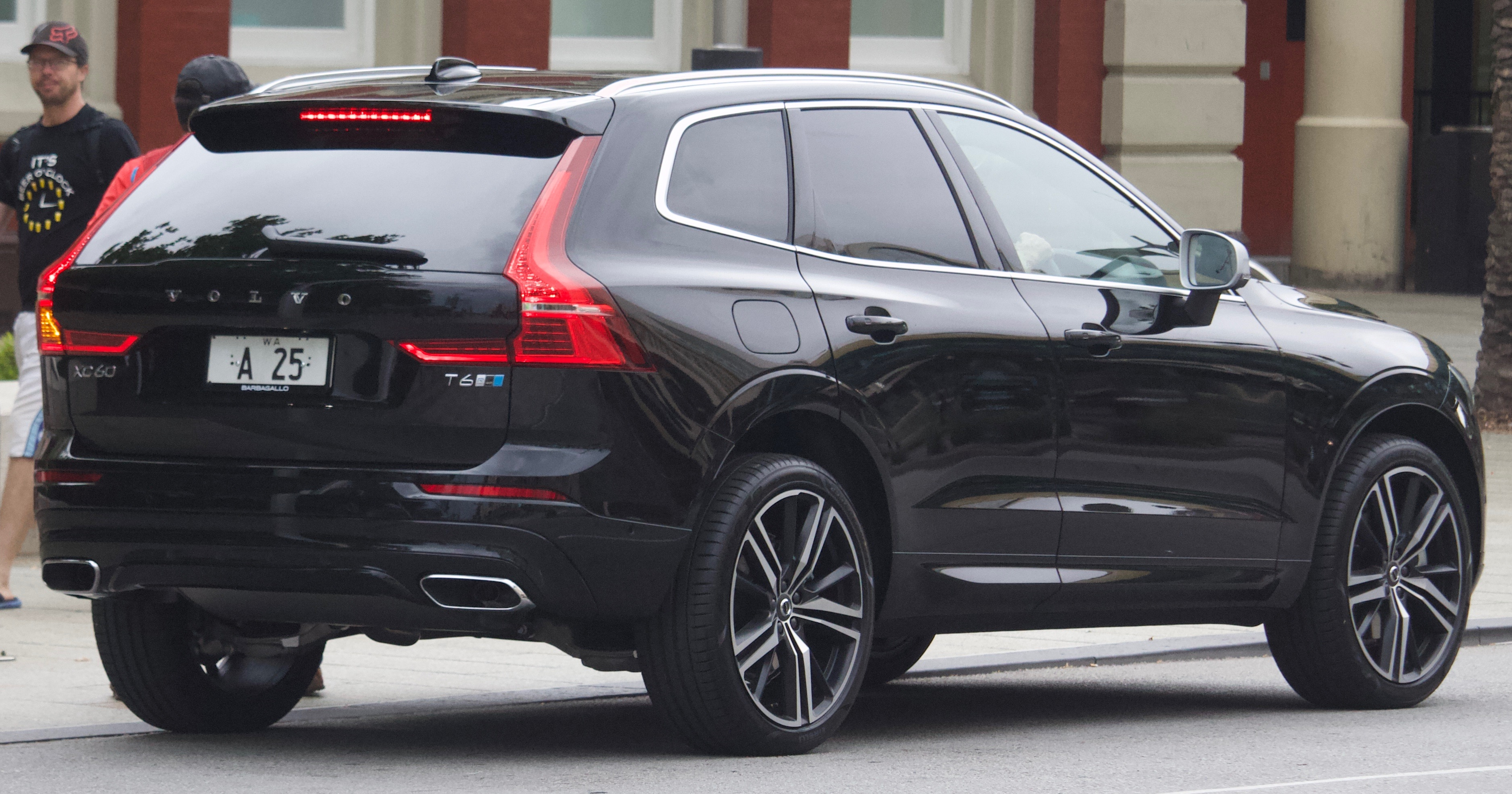 2017 Volvo XC60 T6 R-Design wagon. Photographed in Perth, Western Australia, Australia.